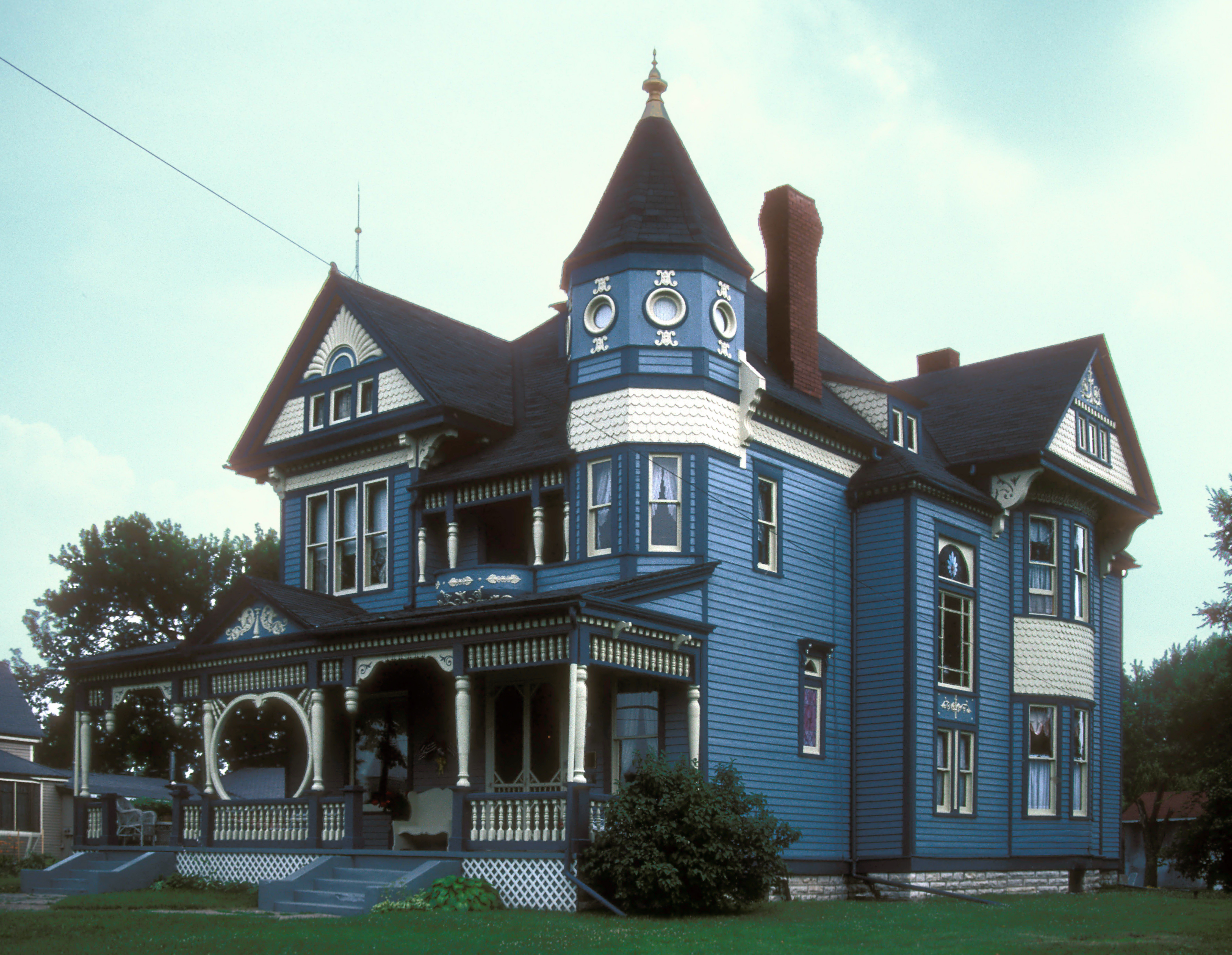 CIRCA 1898; FINEST EXAMPLE OF THE FREE CLASSIC MODE OF QUEEN ANNE IN GALLATIN; HOME OF THE RAY AND TUGGLES FAMILIES WHO WERE PROMINENT IN GOVERNMENT